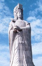 Statue of Matsu in Meizhou Island, Fujian